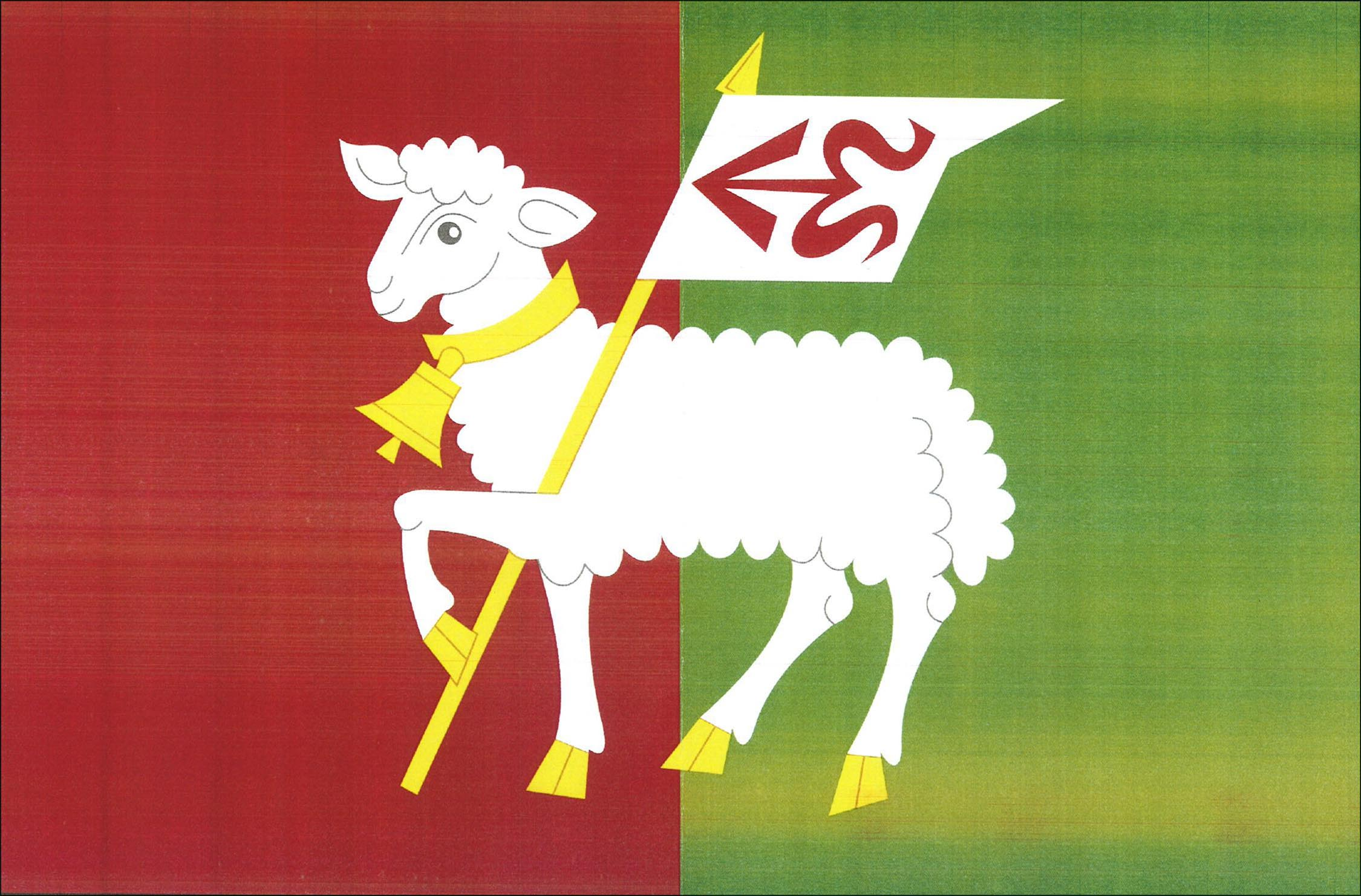 Flag of Olbramovice, Olomouc District